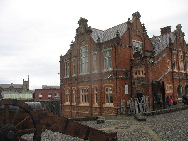 The Verbal Arts Centre from the Double Bastion This image has been taken from near Roaring Meg, seen on the left, at 1794kg, the largest of the Londonderry canons. It was deployed during the siege of 1689. The Verbal Arts building wasn't previously the First Derry National School.